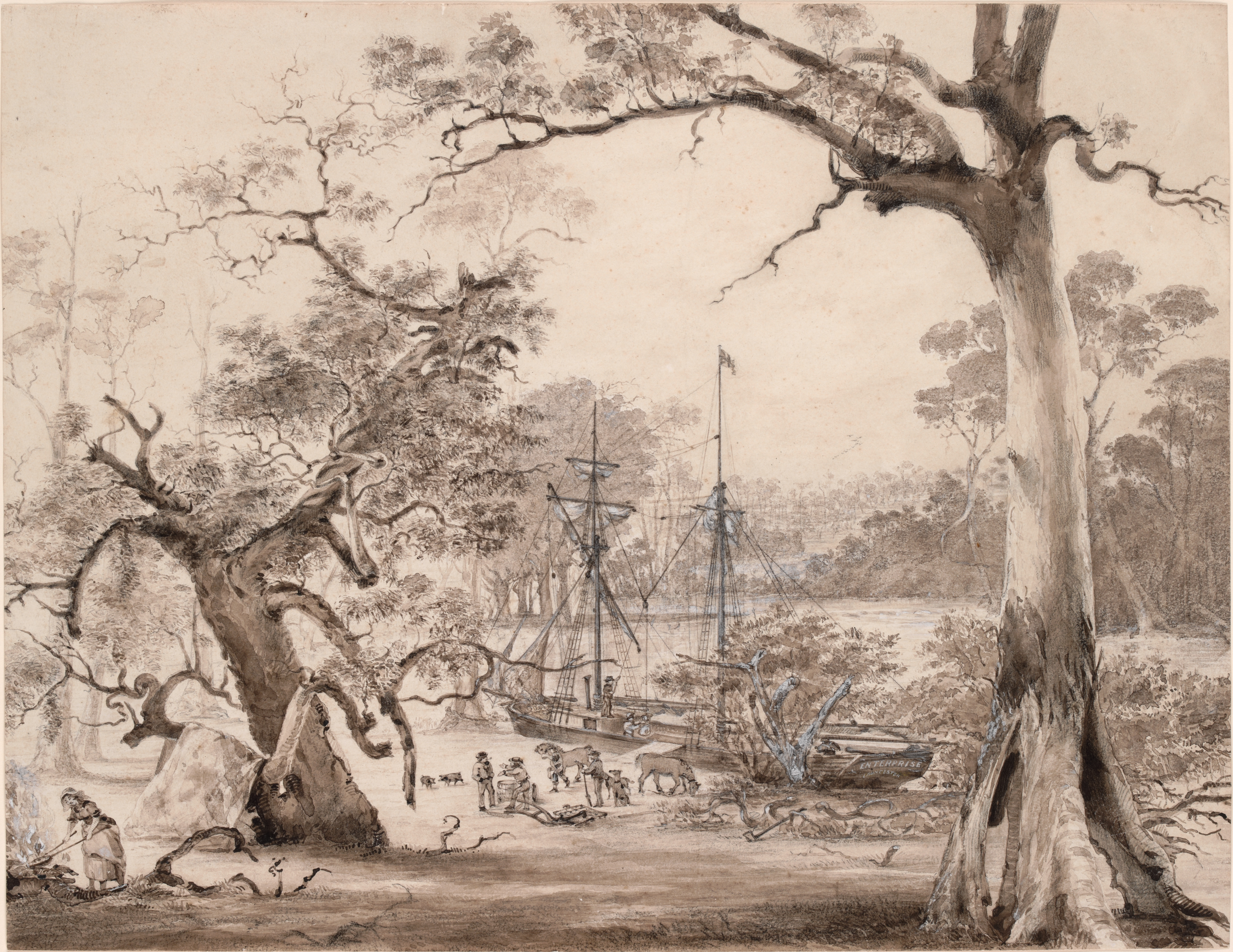 A watercolour painting of the topsail schooner, Enterprize, at the founding of Melbourne in August 1835. The author and date of creation are unknown but a replica was published in Harper's Weekly (New York) vol. 29, no. 1498; 5 September 1885 p. 580.